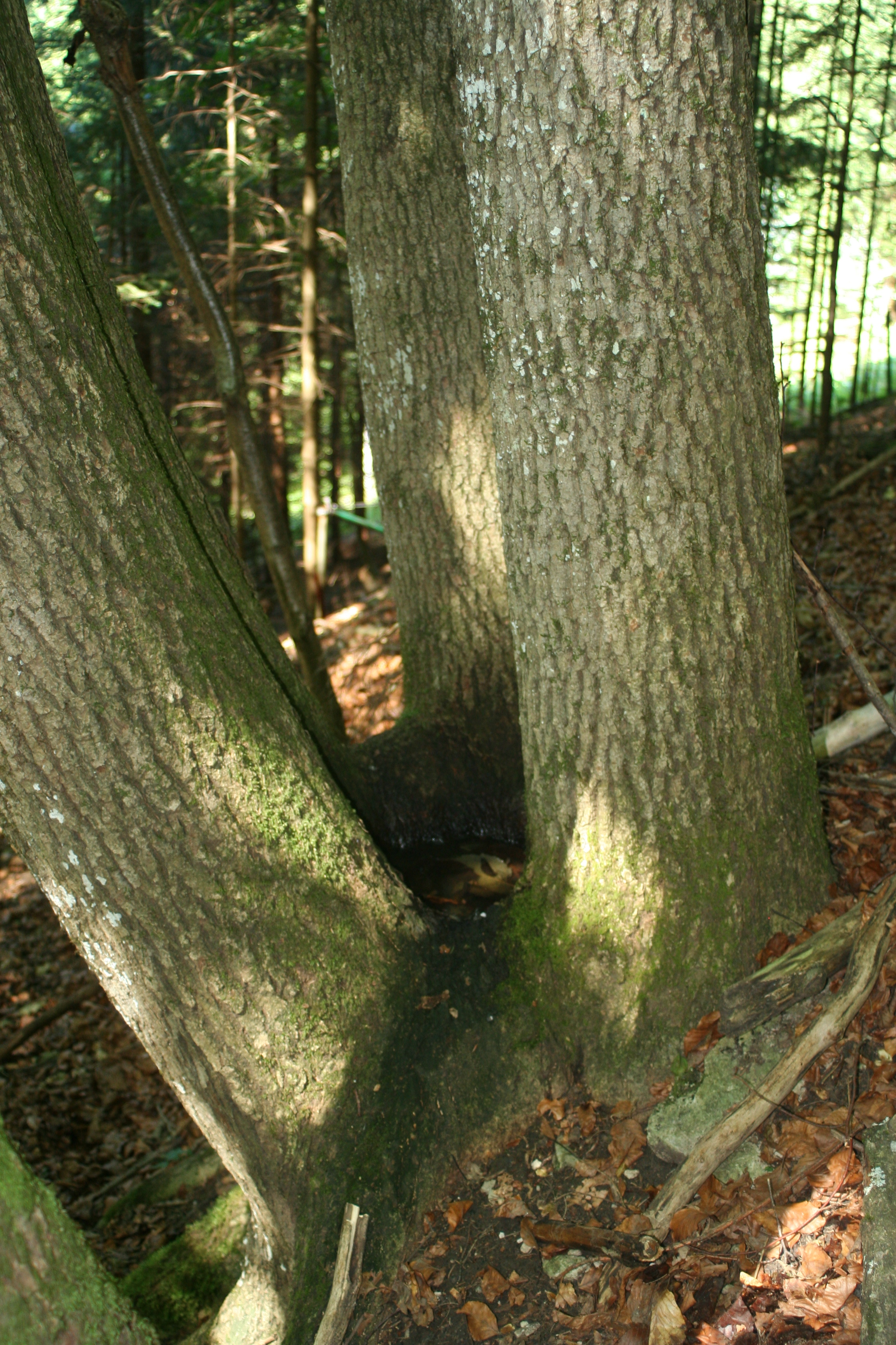 Dendrotelm in Fraxinus excelsior, near Hollenstein an der Ybbs, Lower Austria